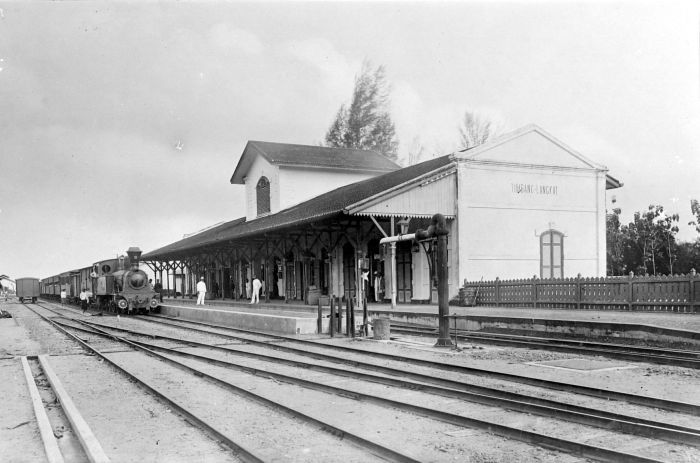 The railwaystation Timbang Langkat in Binjai, Sumatra.